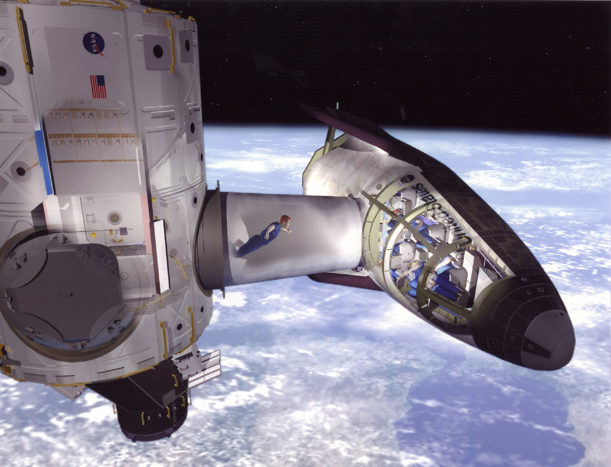 Artist's rendering of the X-38 docked to the International Space Station.